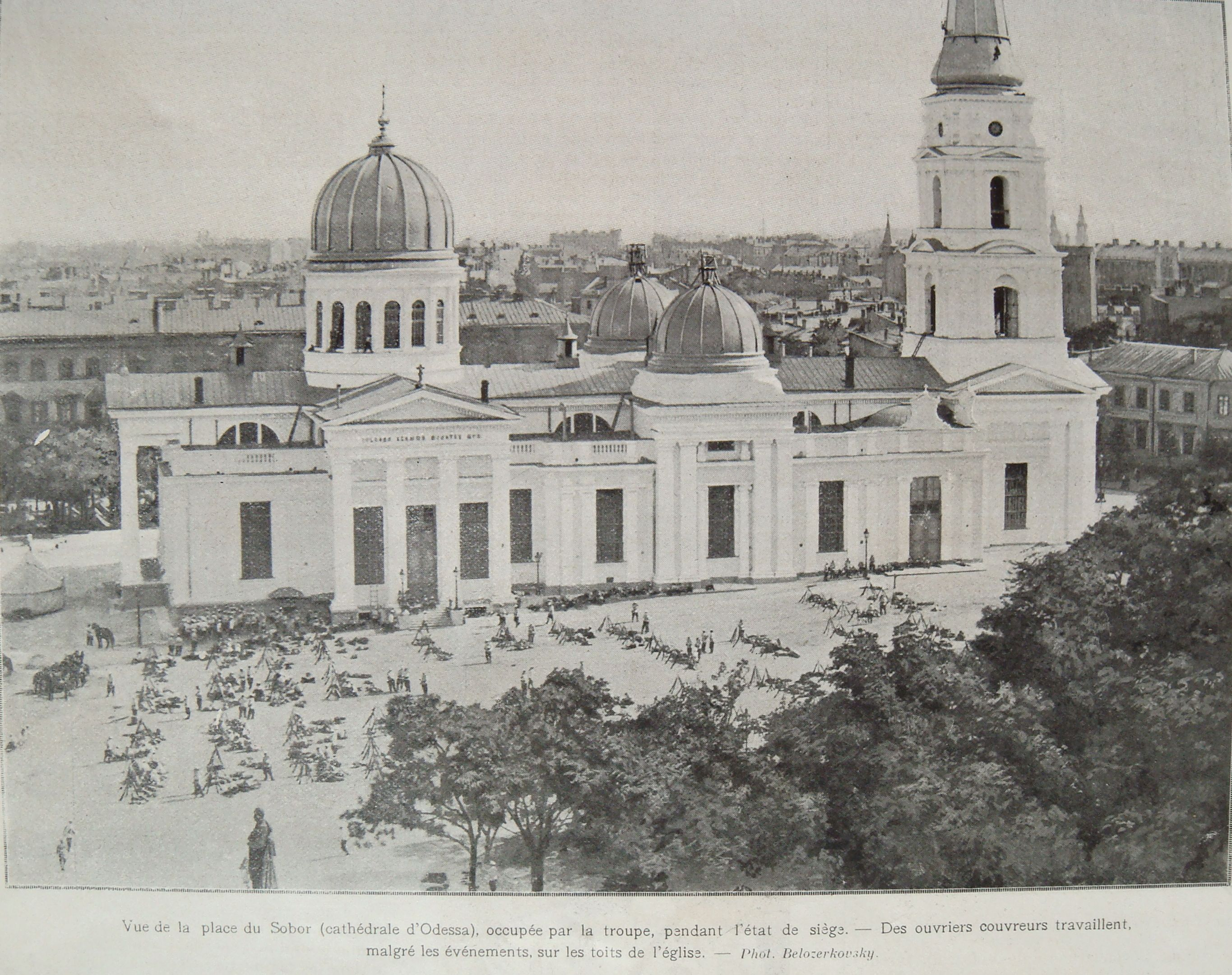 Potemkin mutiny. Odessa Cathedral square. Russian Imperial Army troops bivouacked during days of unrest in the city